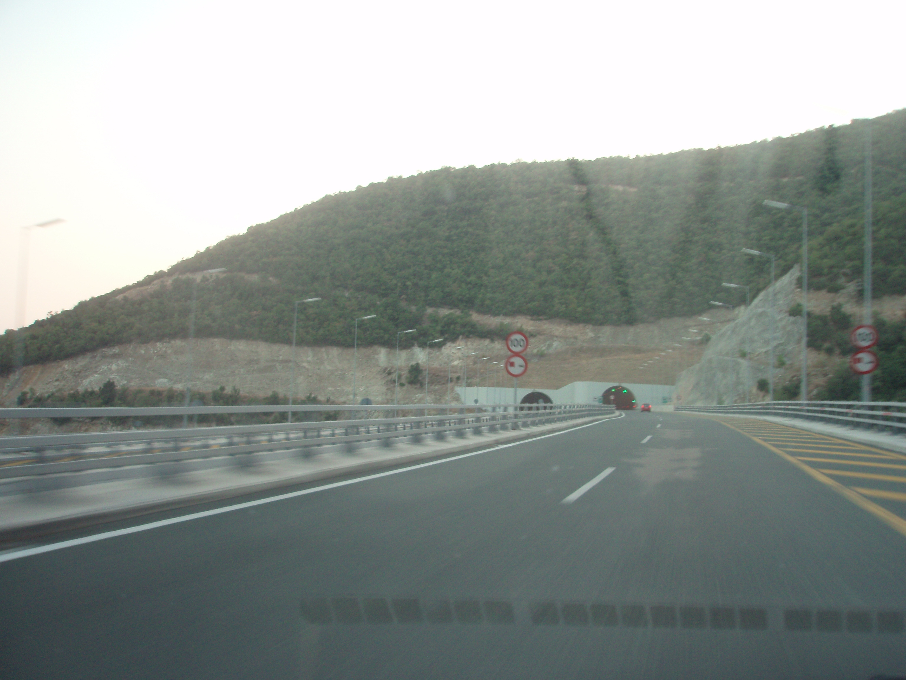 A2 motorway (Egnatia Odos) in Greece, section Veria-Polymylos. View on the entry of one of many dual-bore tunnels during the 22 km of this section.